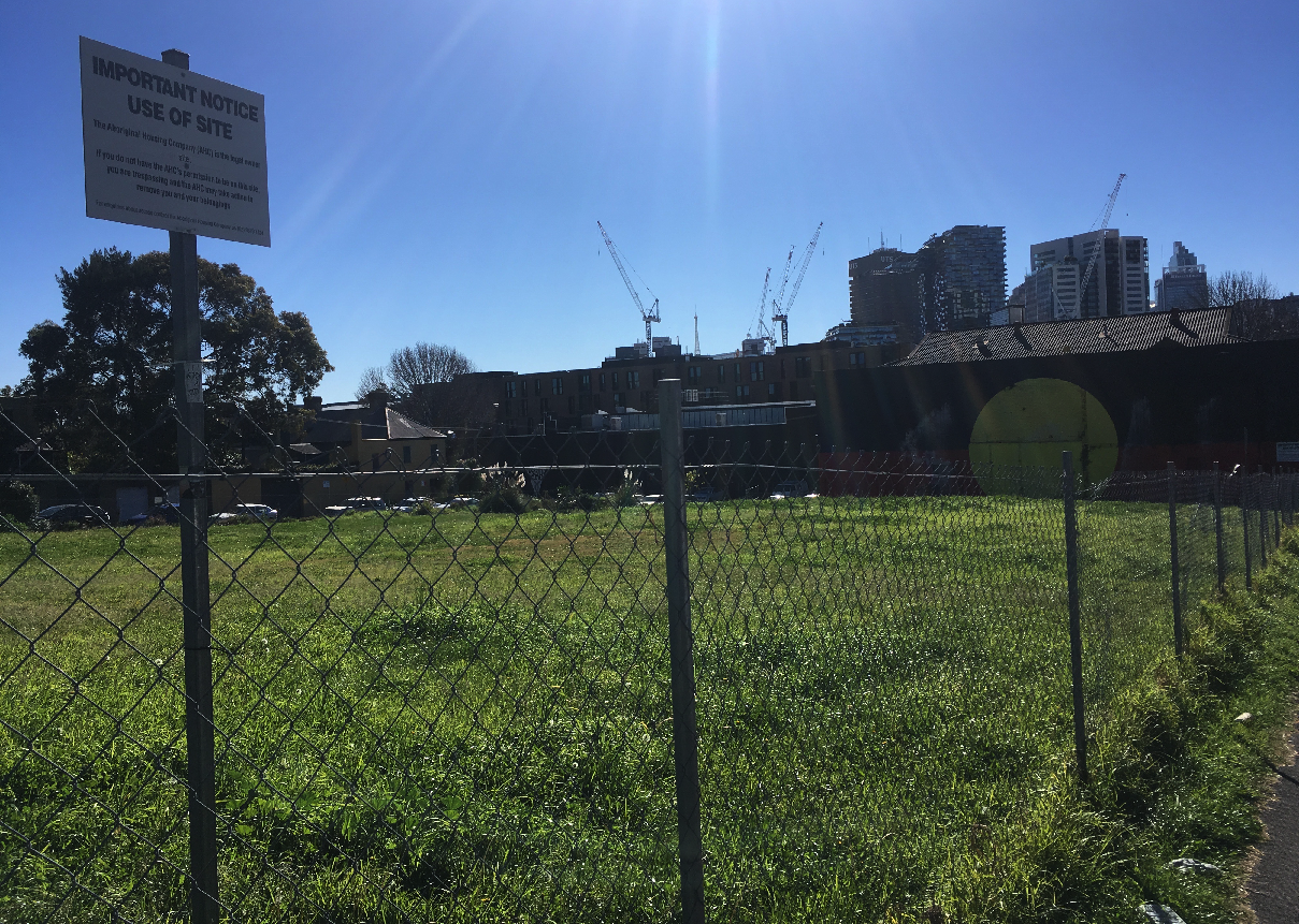 This is the location of the former Redfern Aboriginal tent embassy, pictured on the 9th of July, 2017 taken from the Eveleigh St side. The entire site is now fenced off and surrounded by various signs forbidding entry.